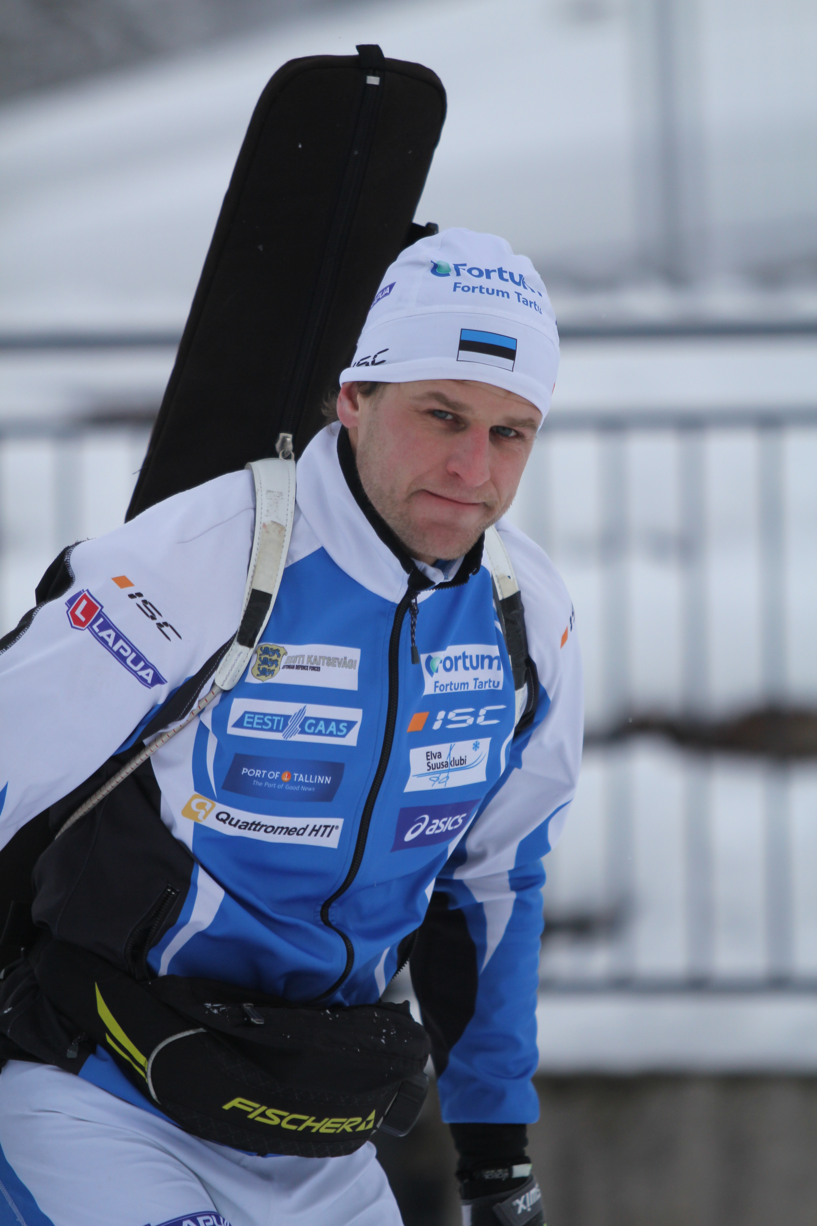 Roland Lessing at Biathlon Worldcup in Hochfilzen 2012